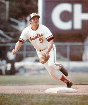 Professional baseball player Brooks Robinson